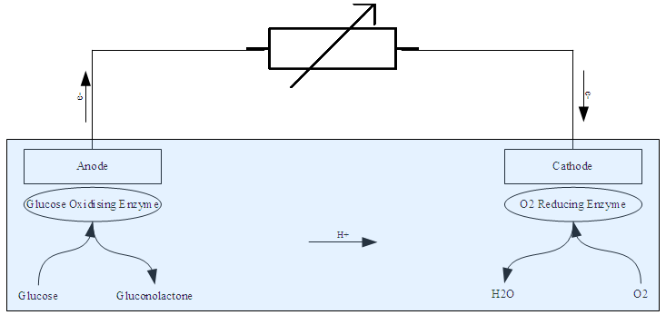 General diagram for enzyme based fuel cell using Glucose and O2. The blue area indicates the electrolyte.